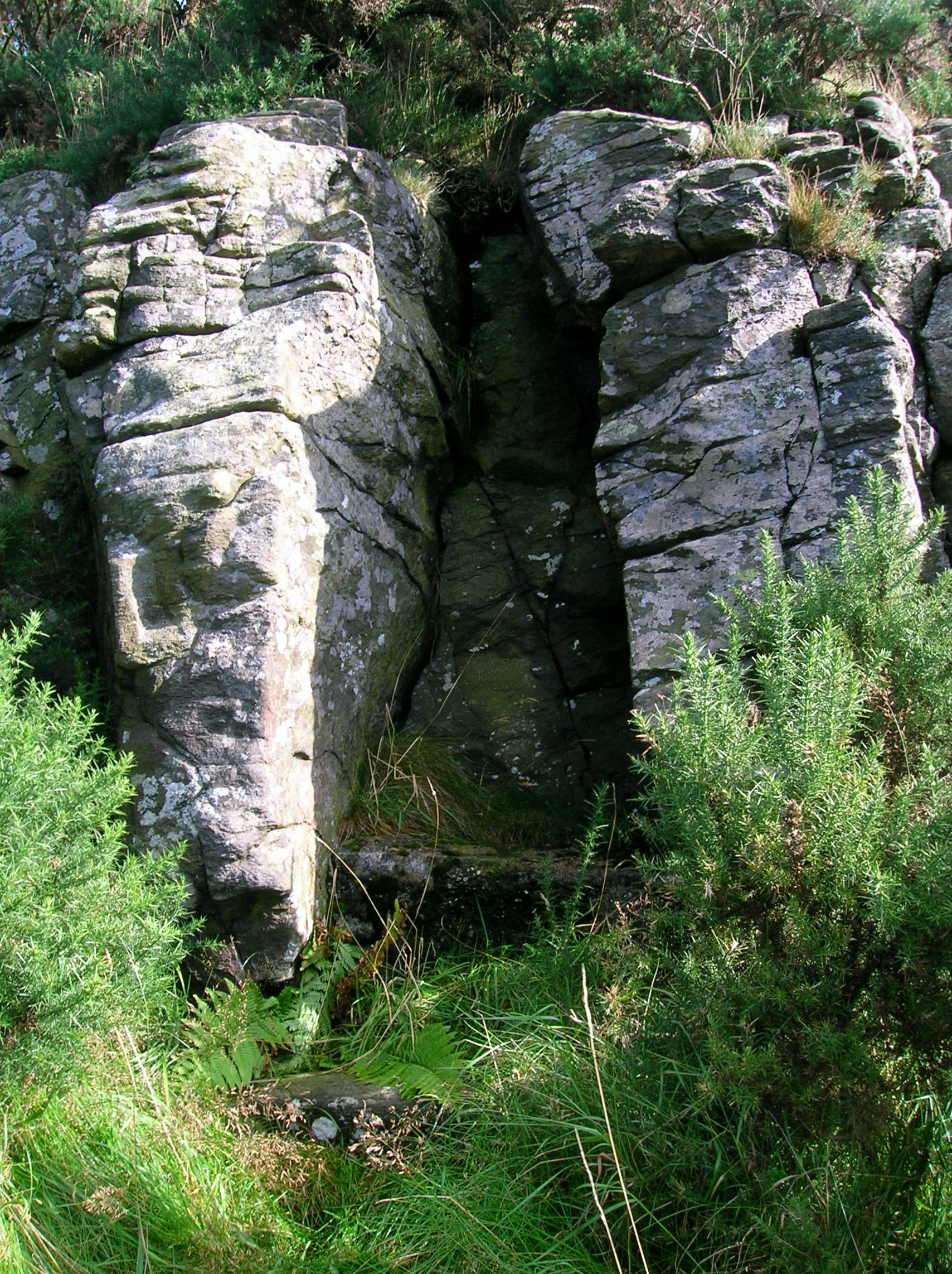 Saint Inan's Chair, Beith, North Ayrshire, Scotland